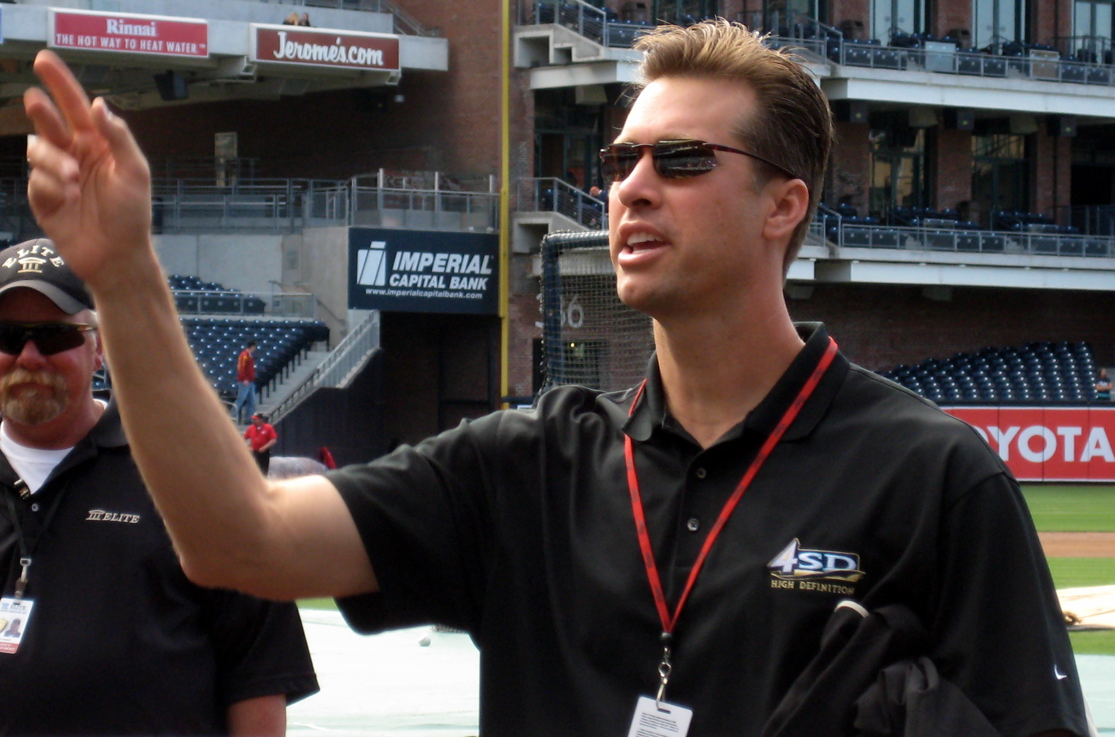 Bob Scanlan (right) on the field at Petco Park during San Diego Padres batting practice in 2008